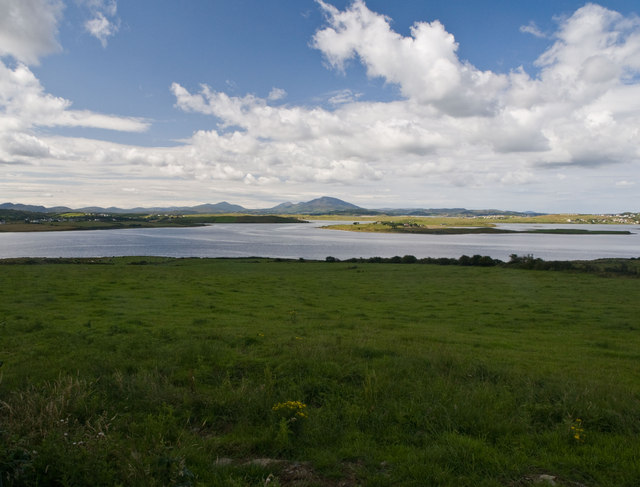 Fields near Leat Beg Looking down towards Paddy's Point. Beyond that is Roy Island in Mulroy Bay and on the far horizon is Muckish Mountain and Aghla Beg.